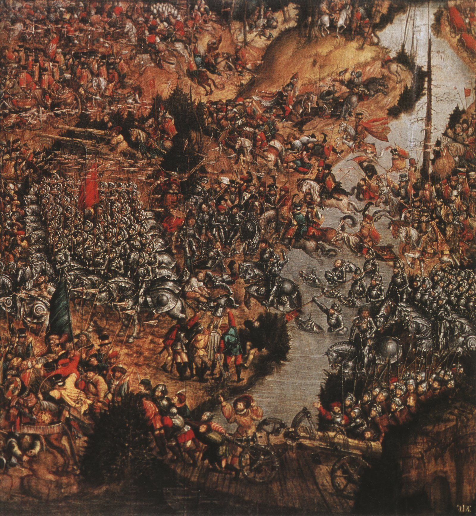 Battle of Orsza - right side Oil on wood, 165x260 (whole painting), National Museum in Warsaw